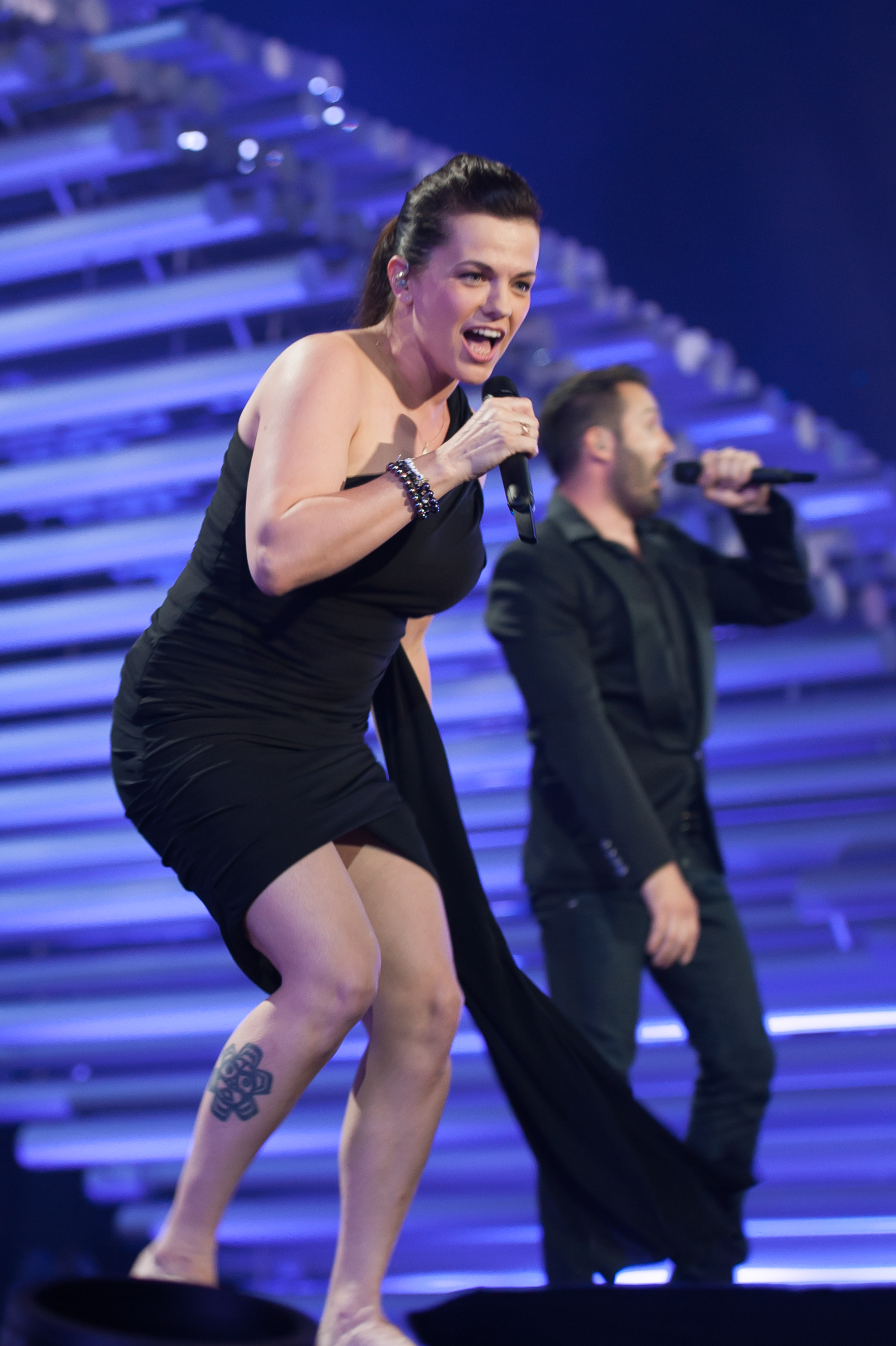 Eurovision Song Contest Vienna 2015: Marta Jandová & Václav Noid Bárta